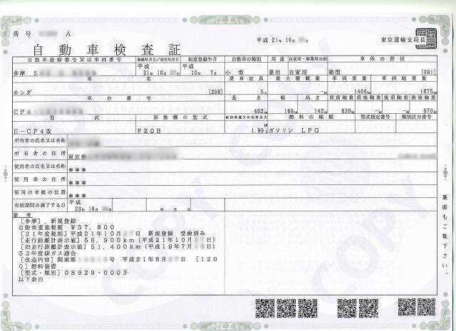 A car inspection certificate in Japan. The certificate was issued for a fuel converted(gasoline and lpg) vehicle.